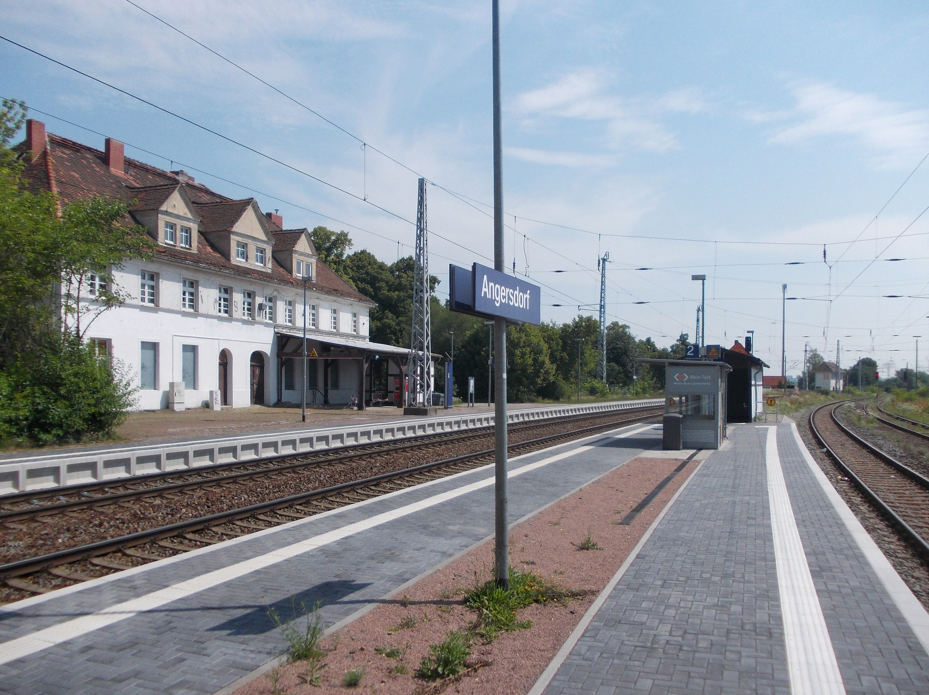 Angersdorf train station (Teutschenthal, district: Saalekreis, Saxony-Anhalt)